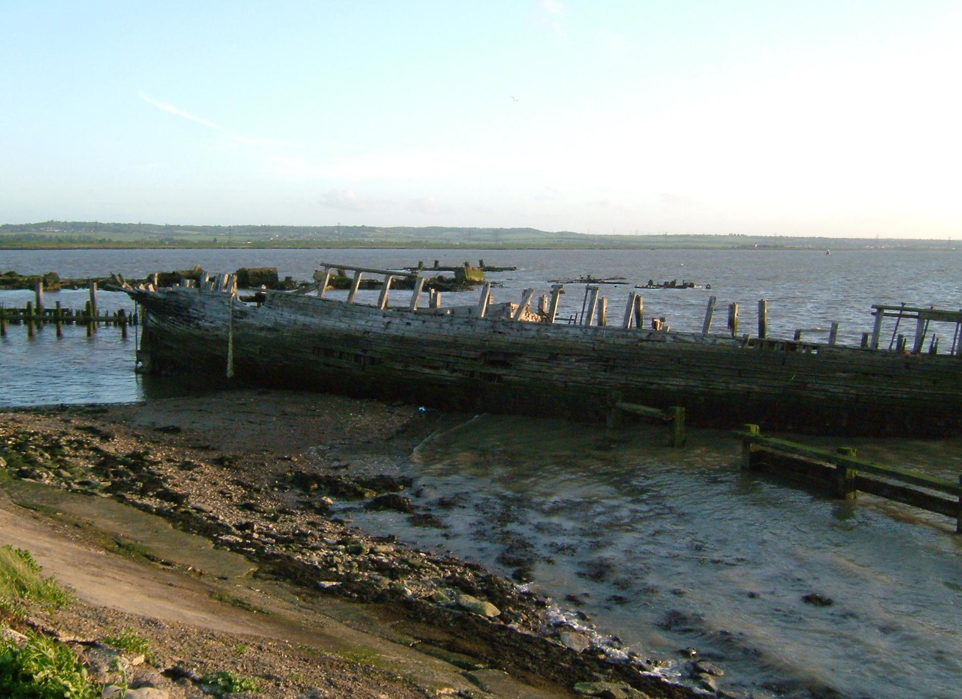 Hans Egede is a 3 masted Danish built ship that broke up under tow, She lies at TQ 708767 on the mud by Cliffe Fort,in the Thames Estuary, on The Lower Hope.